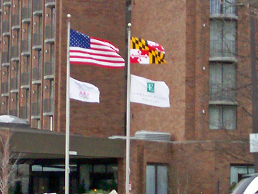 Flag of Maryland flying.